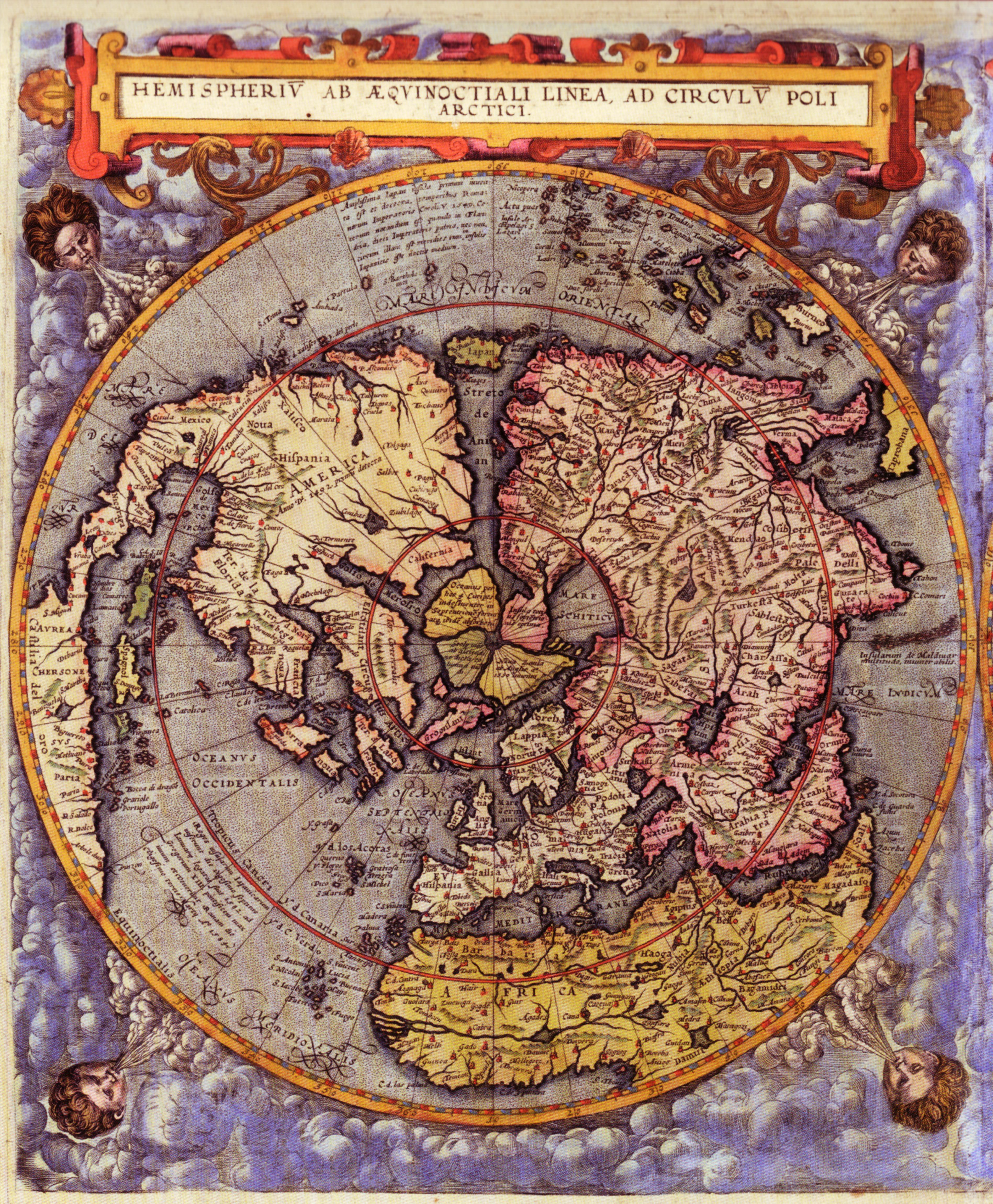 Map of the Northern hemispere, Antwerp 1593. Color print from copper engraving (printer Arnold Coninx), 33 x 52 cm